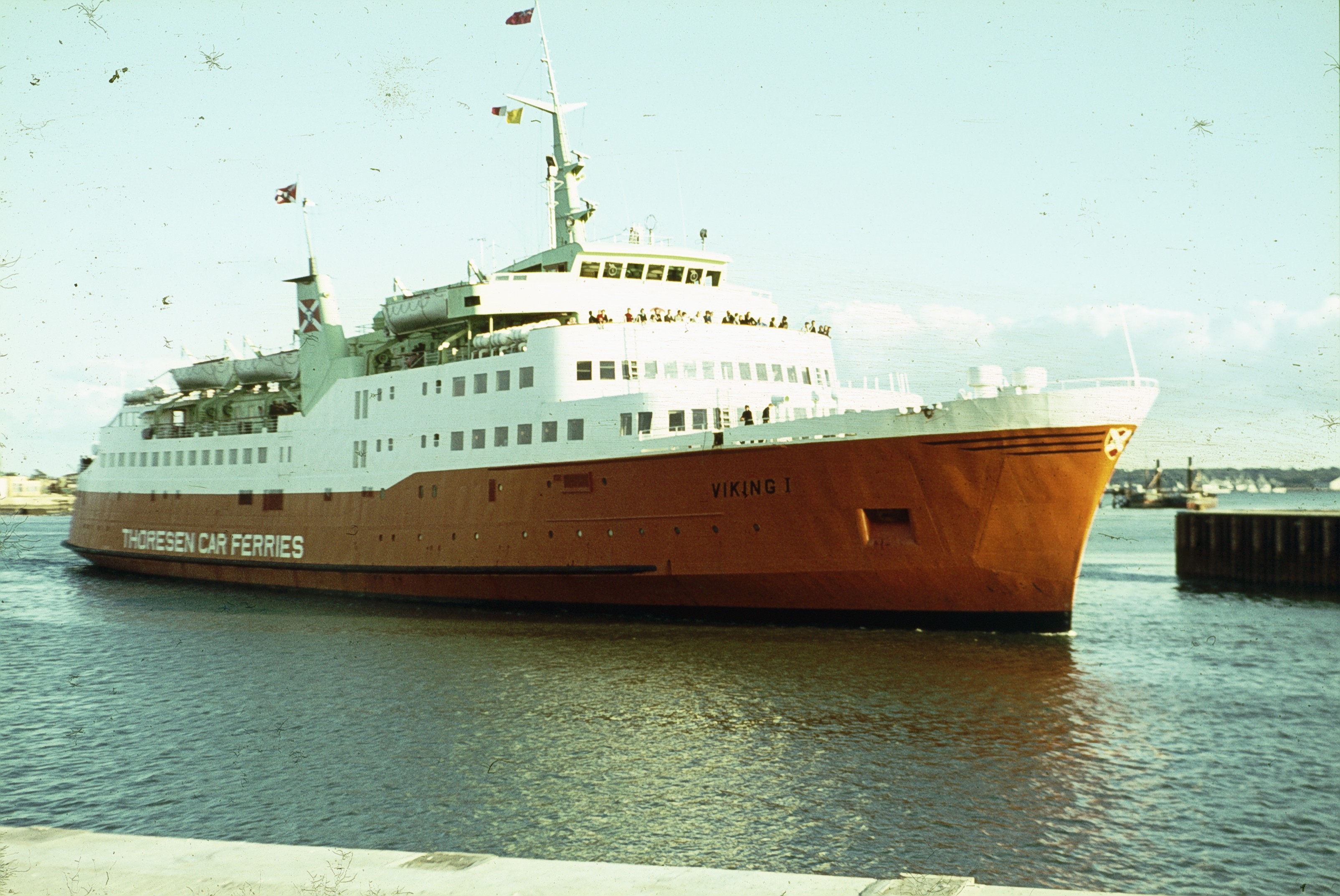 The Thoresen Car Ferry Viking I which crossed the channel from Southampton to Le Havre and Cherbourg